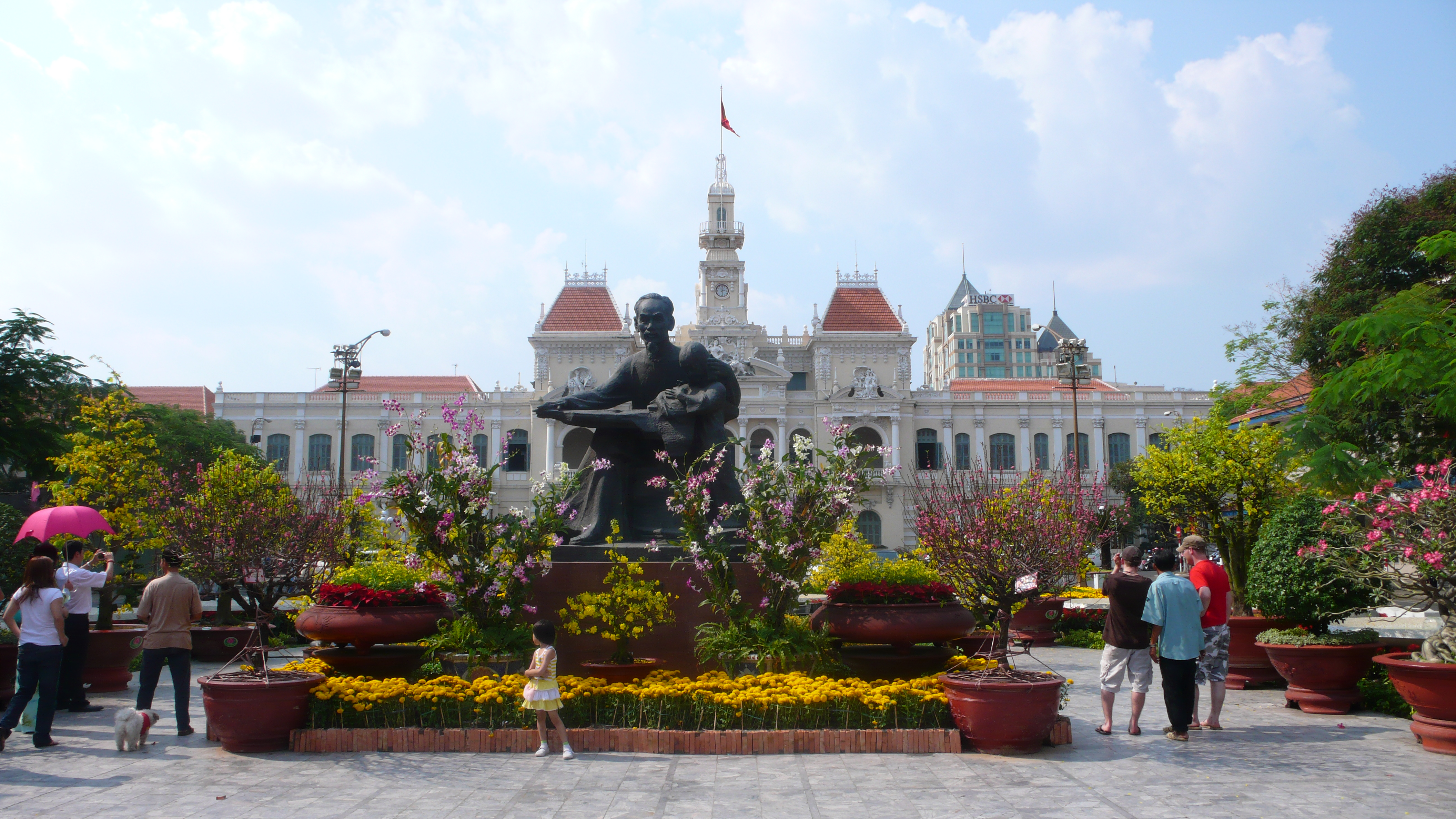 The Saigon People's Committee Building or City Hall has a huge statue of Uncle Ho surrounded by a nice display of flowers that makes for a grand entrance.